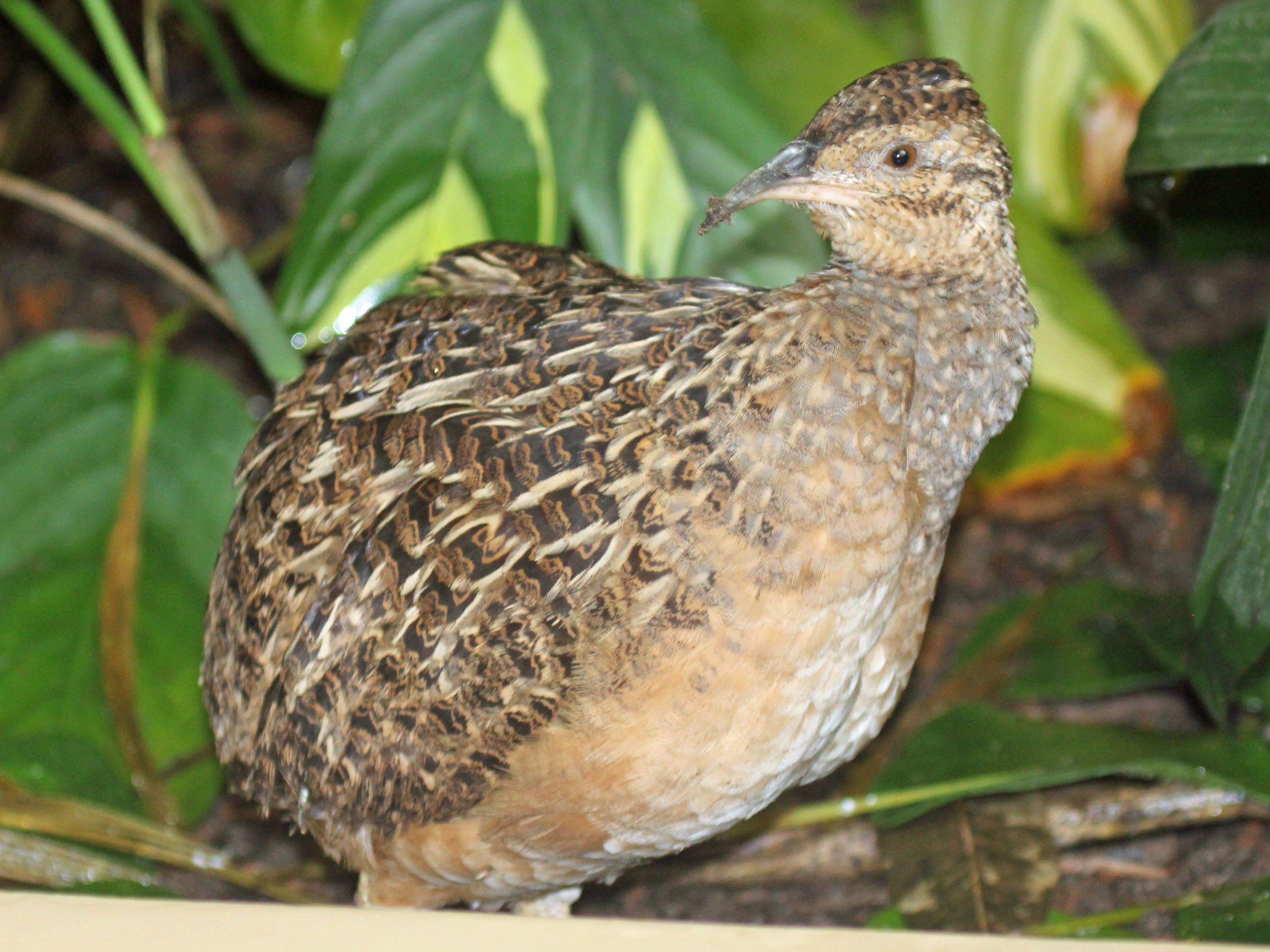 Andean Tinamou (Nothoprocta pentlandii) - San Francisco Zoo